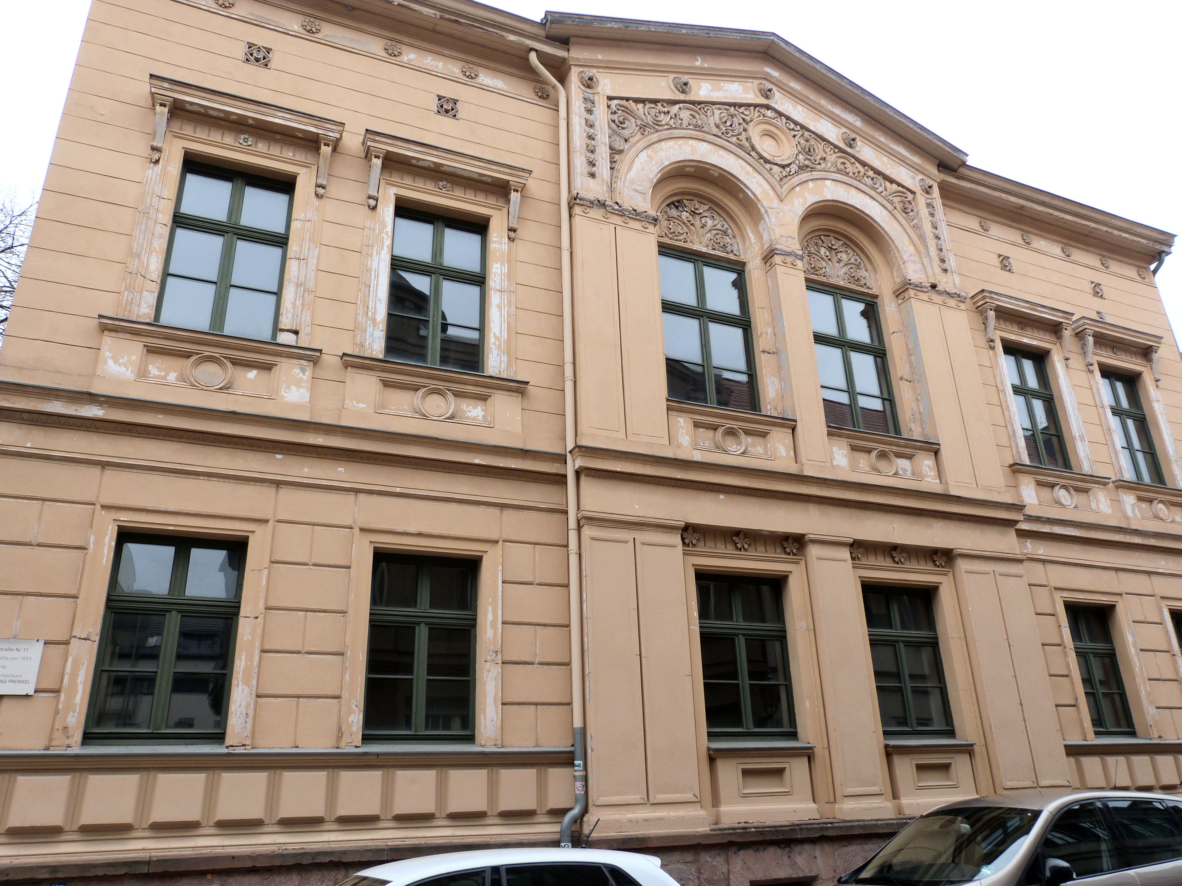 House No. 11, Grosse Märkerstrasse, Halle (Saale)